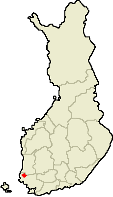 Own work, location of Laitila, Finland